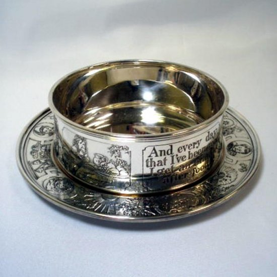 Kerr bowl and plate for children, circa 1900